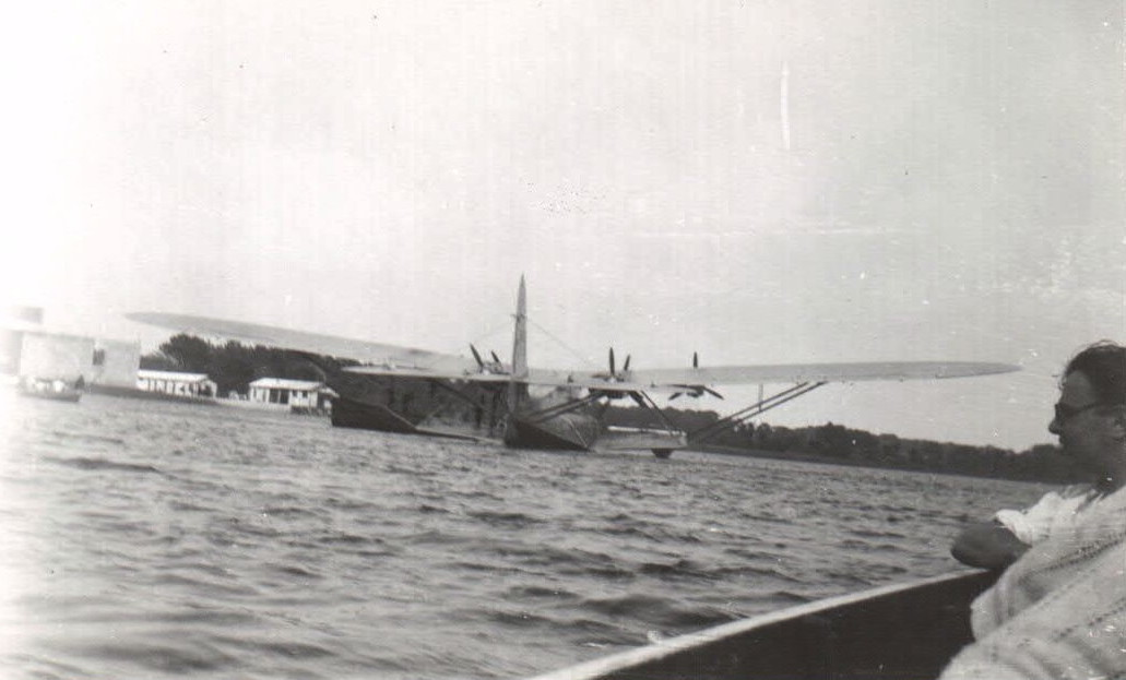 Latécoère 521 - Biscarrosse Lake